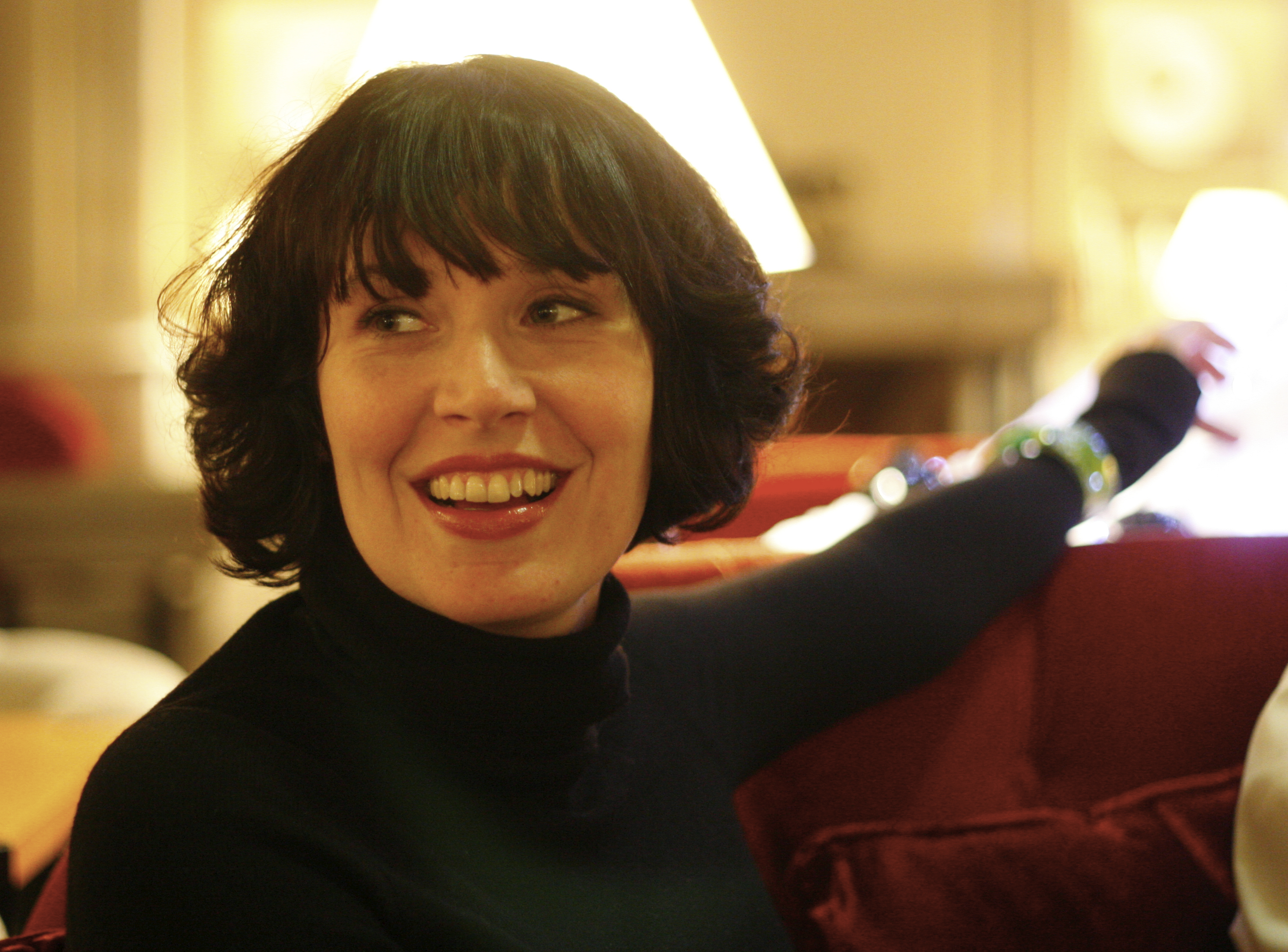 Sarah Lacy. Taken by Doc Searls at LeWeb3 in Paris.